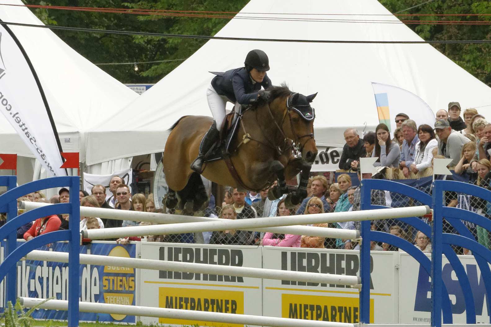 Internationales Pfingstturnier Wiesbaden 2013 The making of this document was supported by the Community-Budget of Wikimedia Germany.